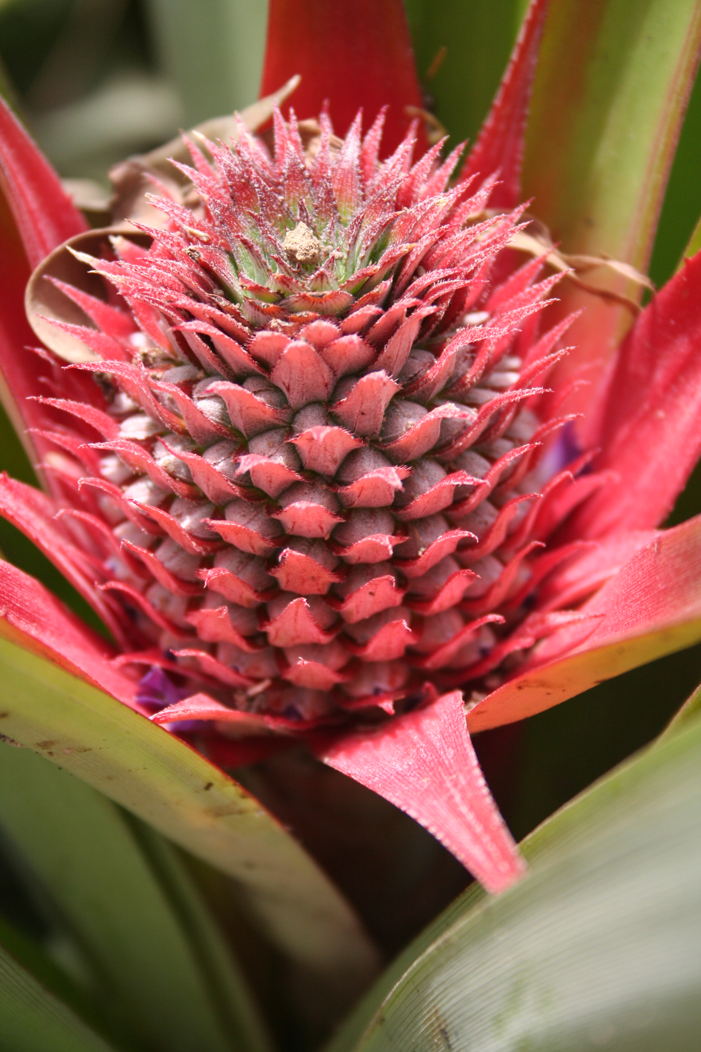 Inflorescence with blue Flowers Ananas comosus, planted in NW Cameroon